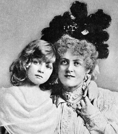 Gladys Cooper (1888-1971) and Marie Studholme, photo by William Downey (1829-1915)